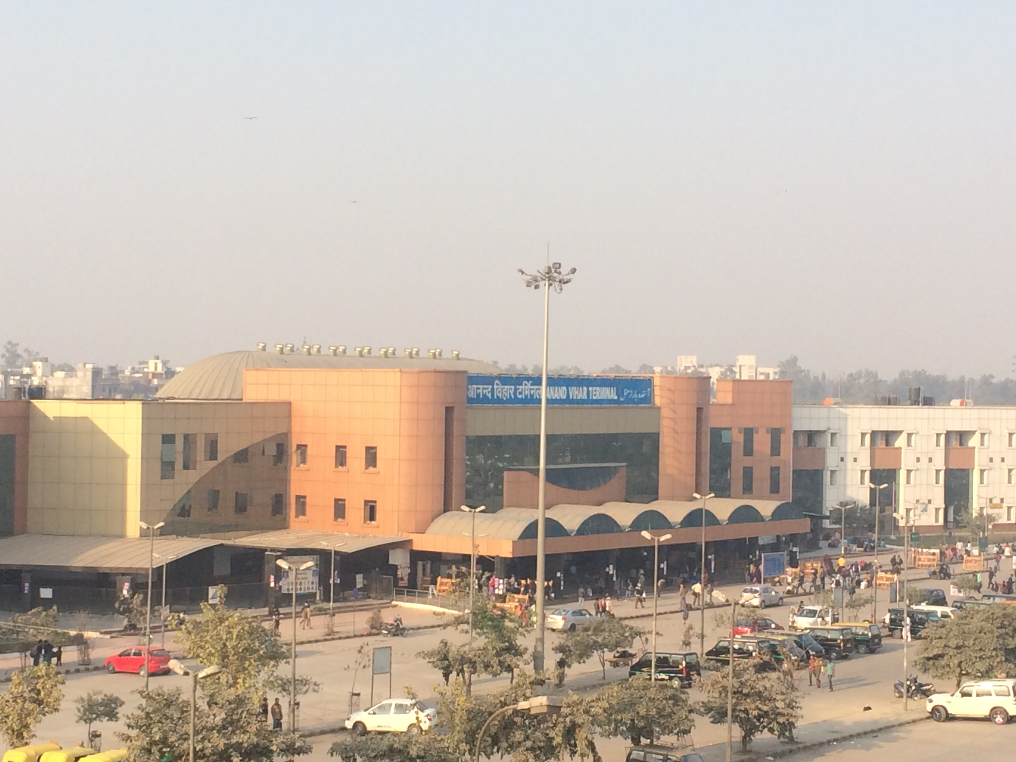 Anand Vihar Terminal - Main Building as seen from Anand Vihar ISBT metro station